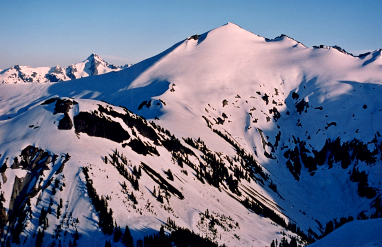 Ruth Mountain from Hannegan Peak near sunset on July 2, 1991. North Cascades of Wsshington state. Annotation for Mount Blum.